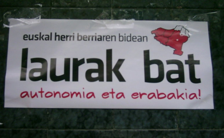 On the way of a new Basque Country. The four (provinces are) one. Autonomy and decision!